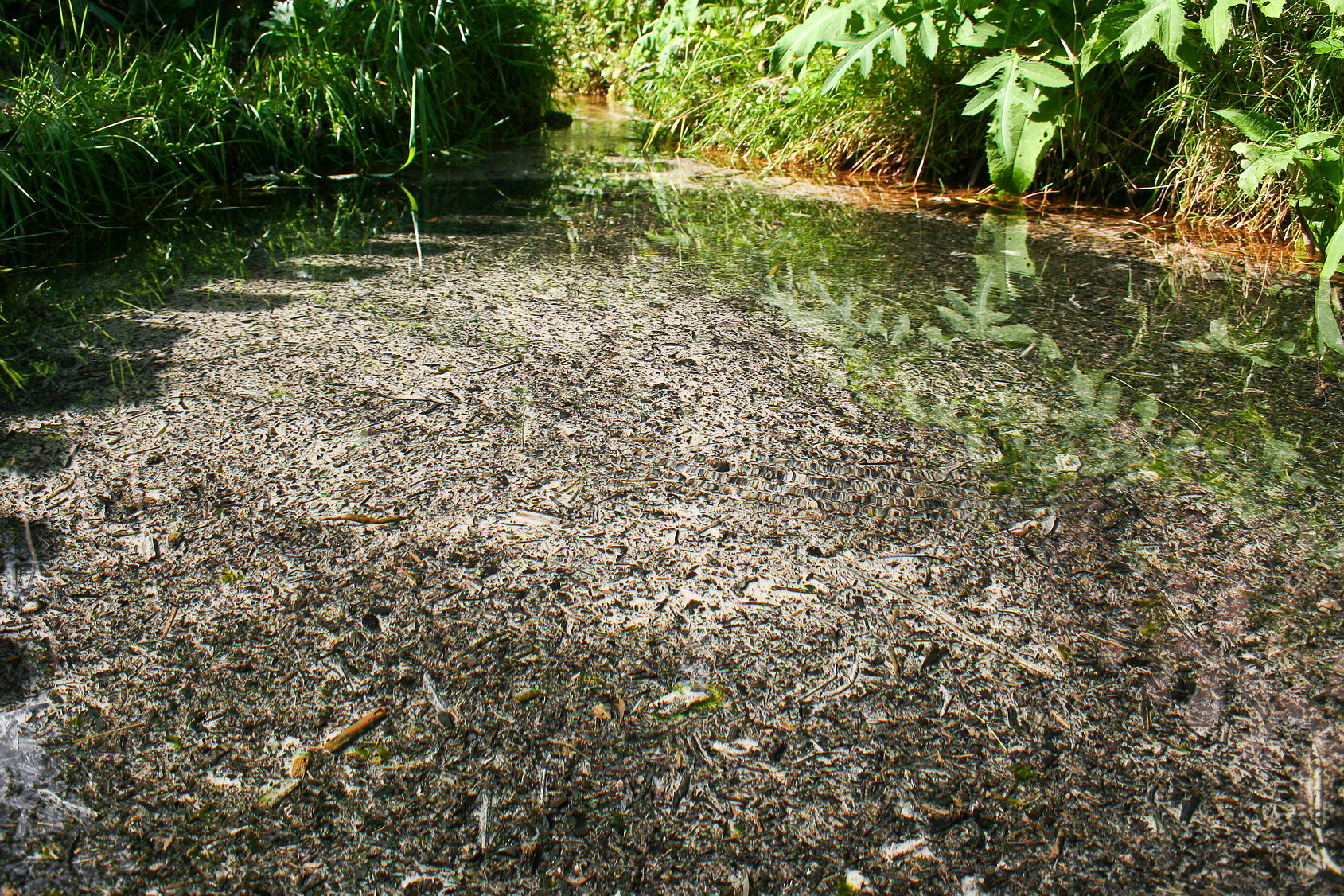 A well of Žuvintė, Lithuania